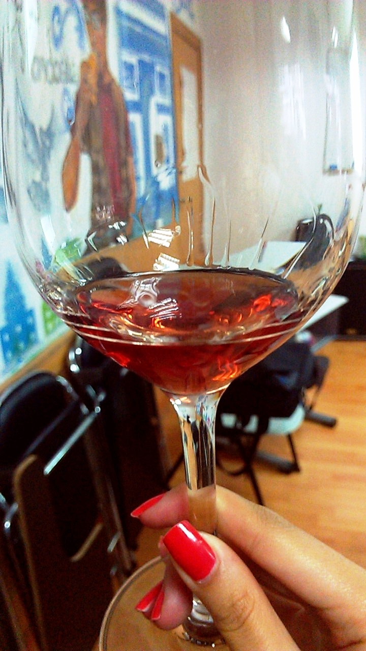 Floc de Gascogne à l'Alliance française de Wuhan (